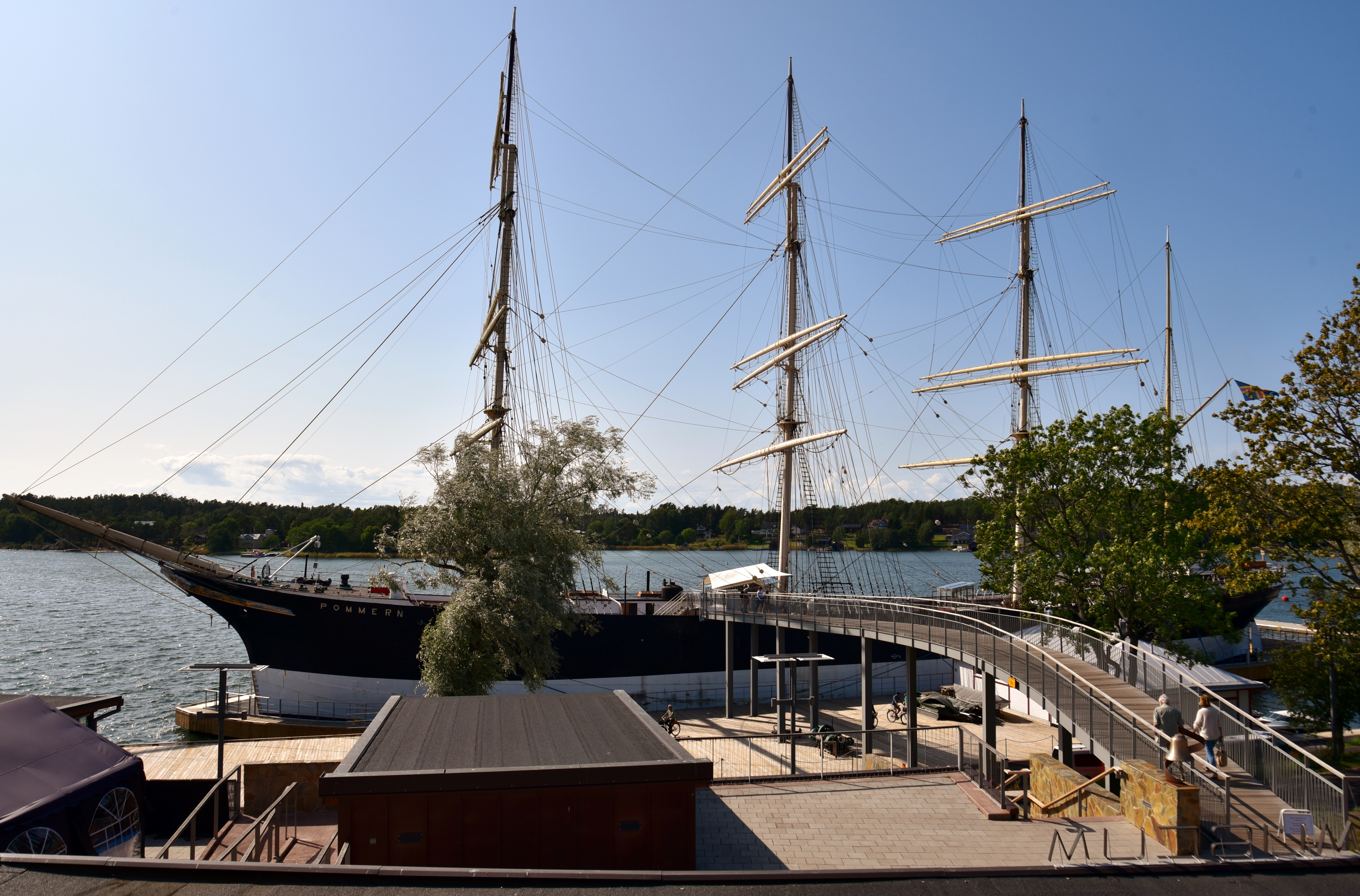 The preserved sailing ship Pommern, on display at the Åland Maritime Museum in Mariehamn, Åland Islands, Finland